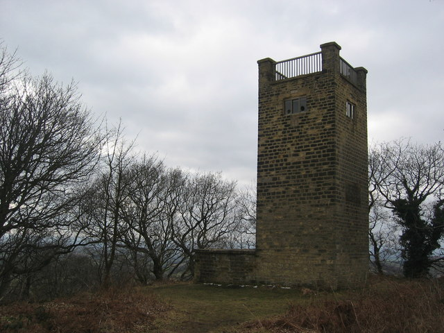 Mount Snever Observatory. Built to commemorate the coronation of Queen Victoria in 1838 this observatory is now disused but has tremendous views over the Dales from its position.